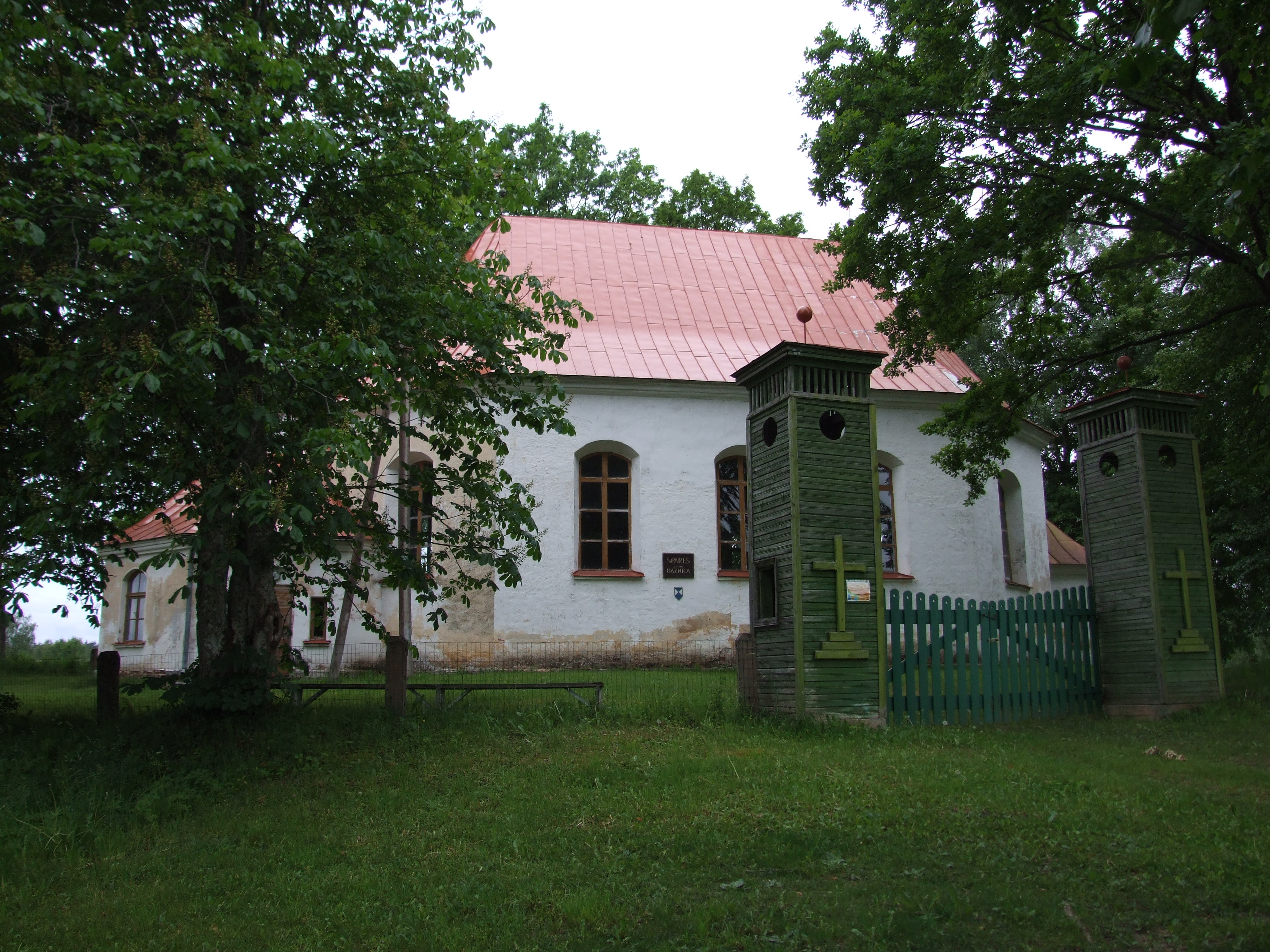 Spāre Lutheran church